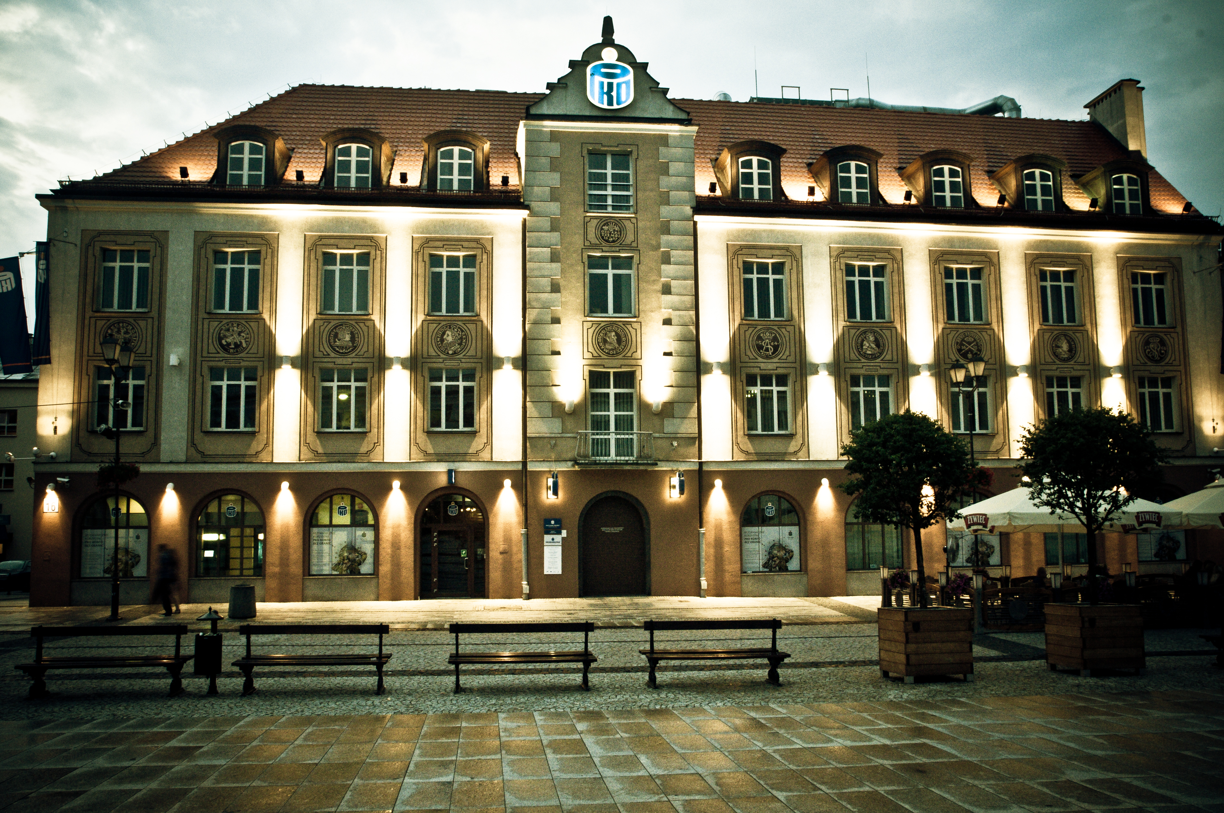 Bank Pekao BP Branch in Białystok, Rynek Kościuszki 16